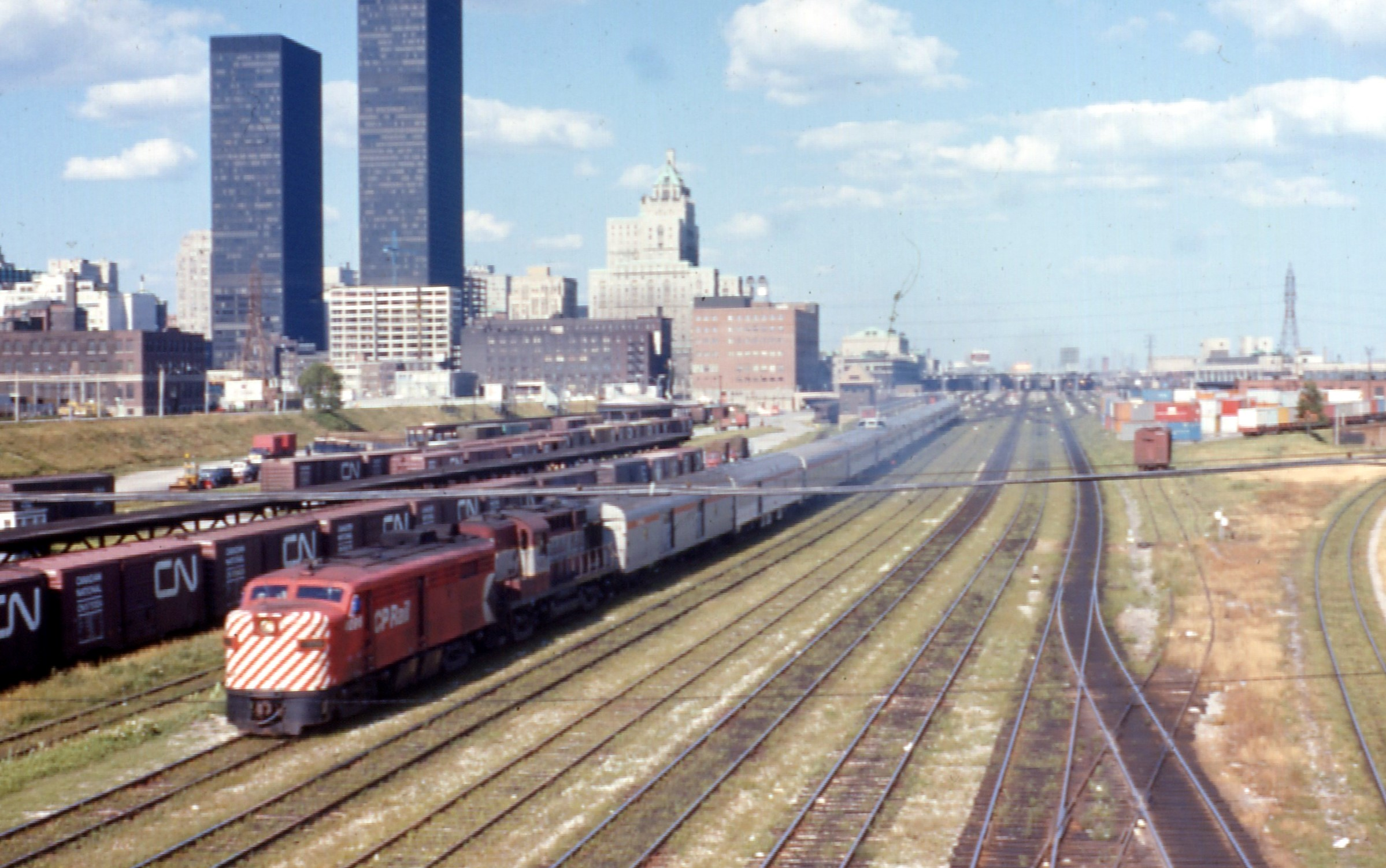 Railway lands in Toronto, Ontario, Canada. CP Rail's flagship train "The Canadian" departs Union Station for Sudbury where it will meet up with the section from Montreal. From thence, it will follow a southern route along the north shore of Lake Superior to Thunder Bay. From there it will proceed to Winnipeg, Regina, Calgary and Vancouver.